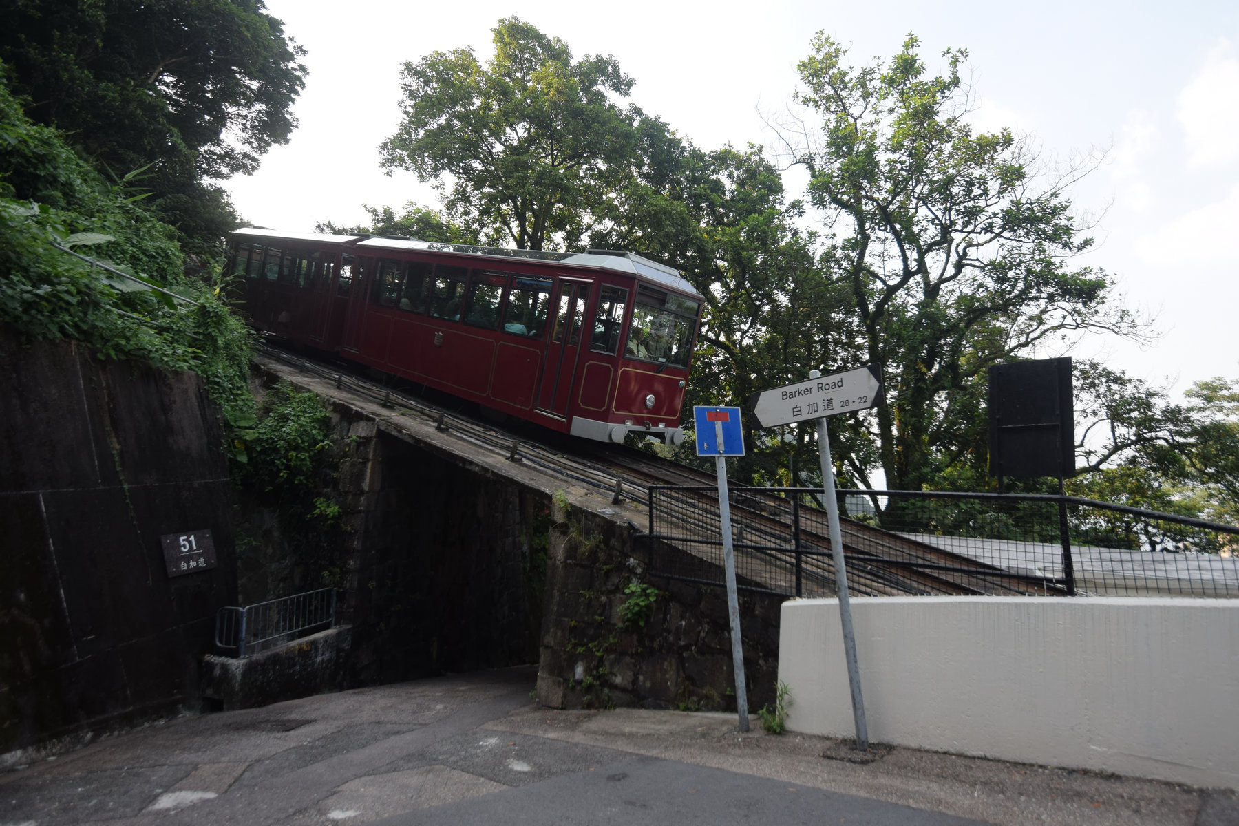 A Peak Tram was crossing Barker Road.